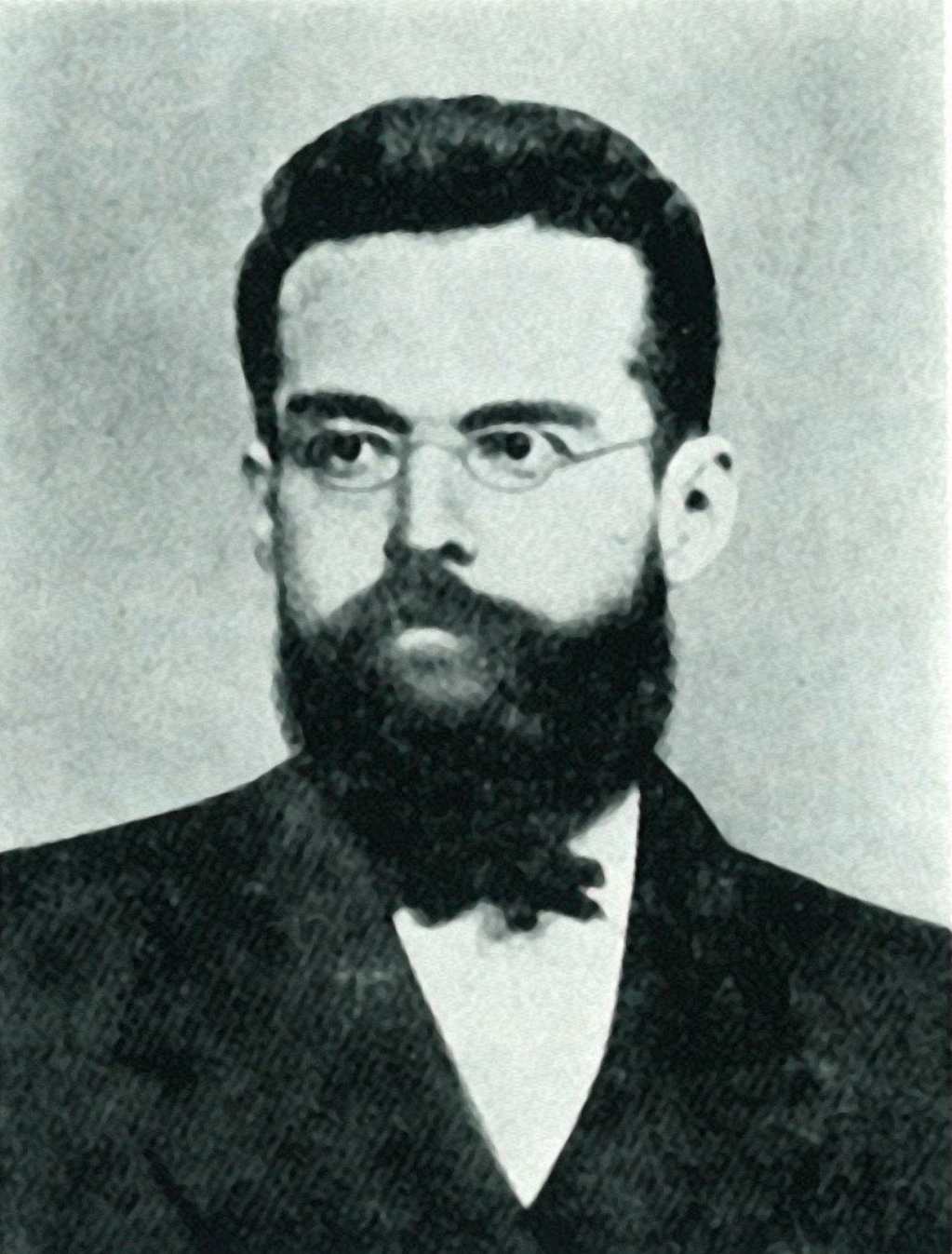 Picture of Henri Auguste Pélegrin